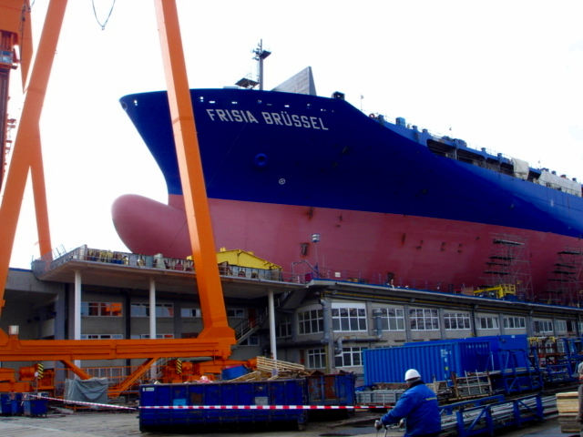 hull of new container vessel 3.400 TEU „Frisia Bruessel“ (Hartmann Shipping Company, Leer) on the day of launching, ship yard „Nordseewerke Emden“ (Thyssen Krupp Group), Emden, East Frisia, Germany